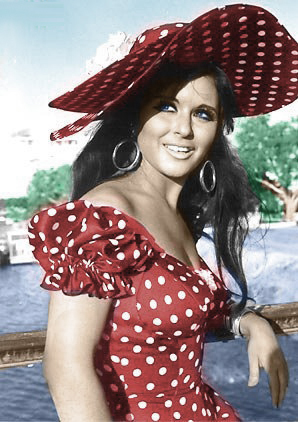 Suad Husni